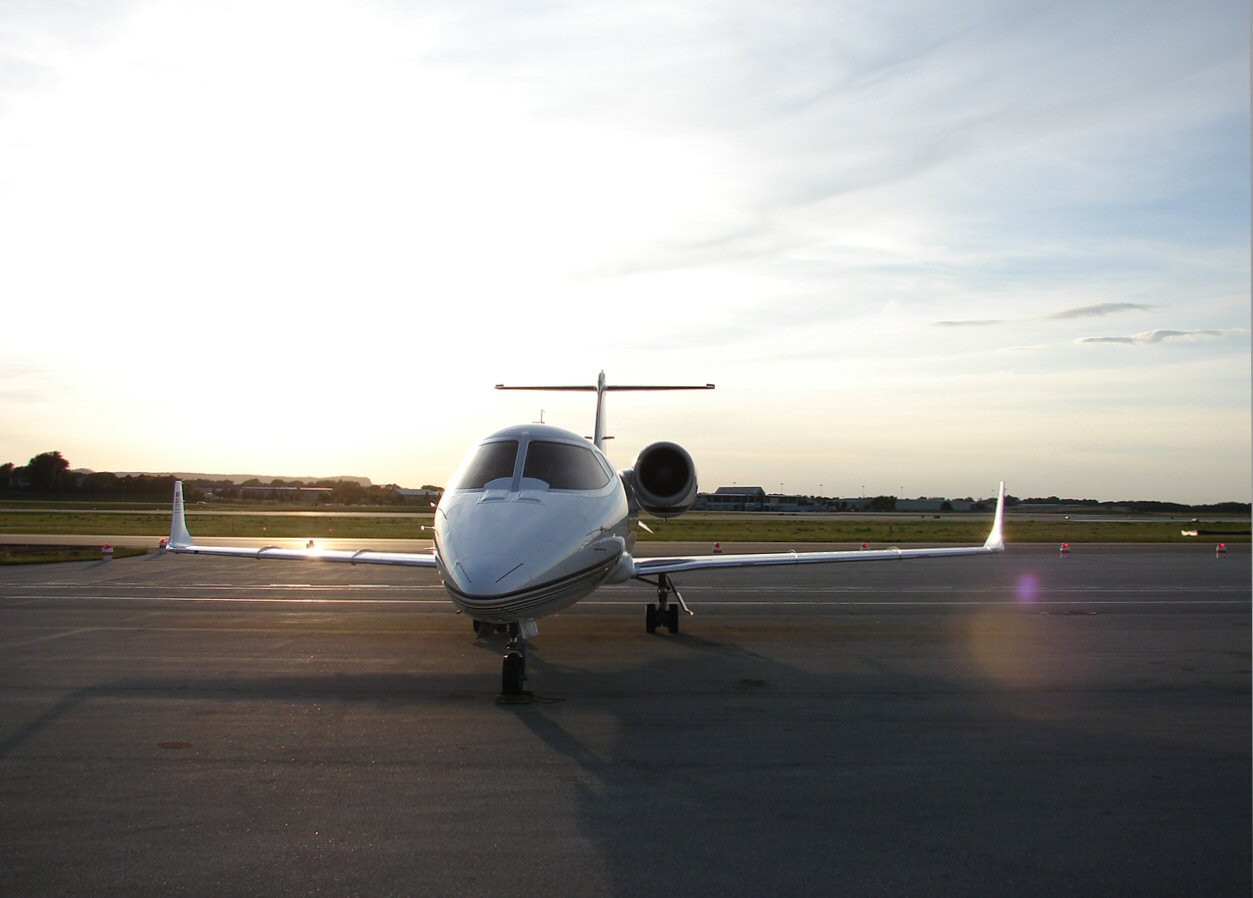 ahh the 60